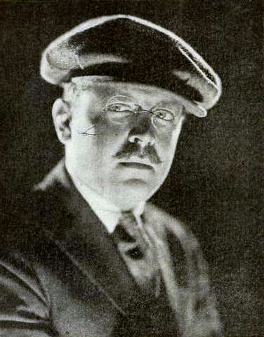 American director Erle C. Kenton, from an ad on page 94 of the April 24, 1921 Film Daily.